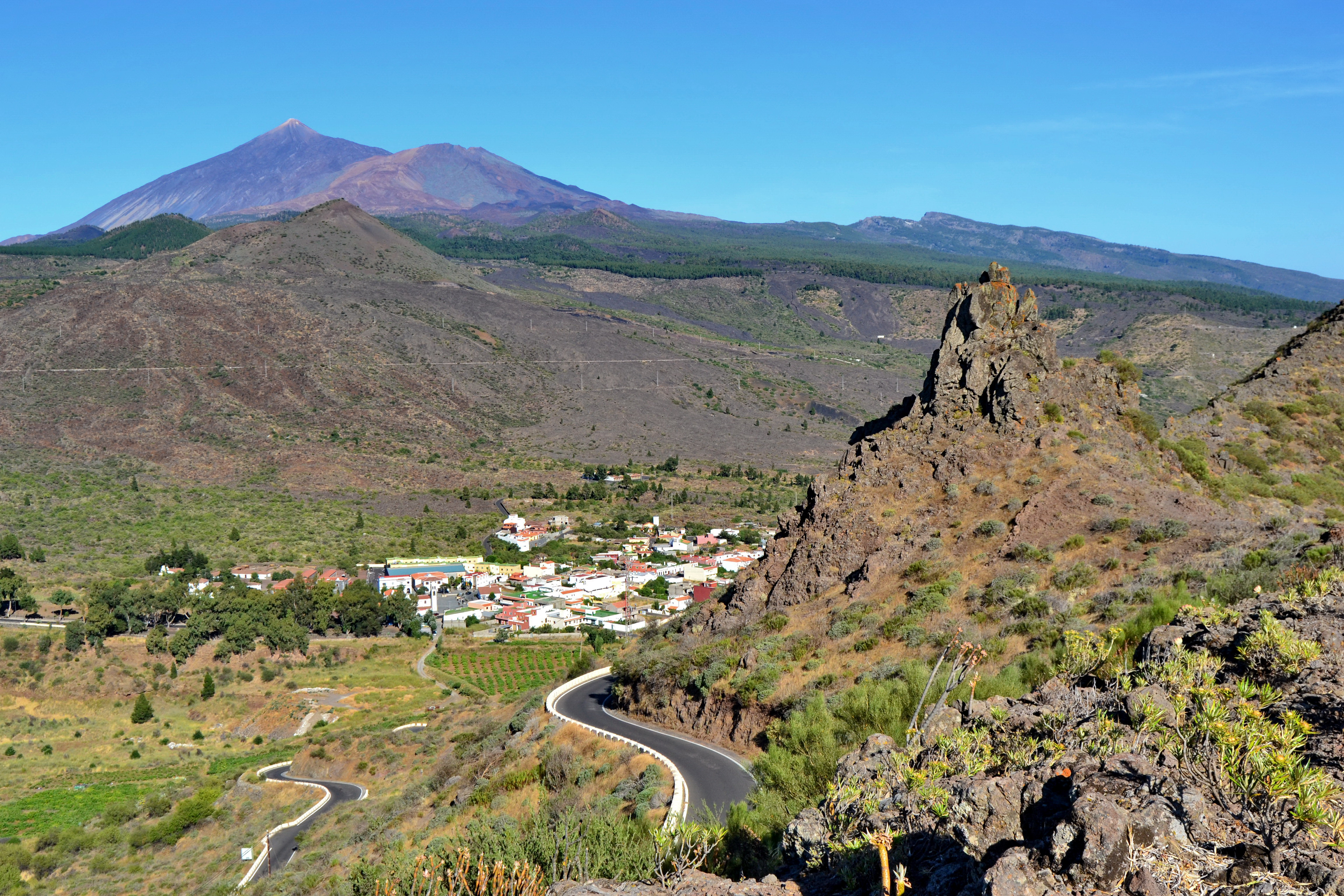 Santiago del Teide and the Teide, Tenerife, Canary Islands, Spain